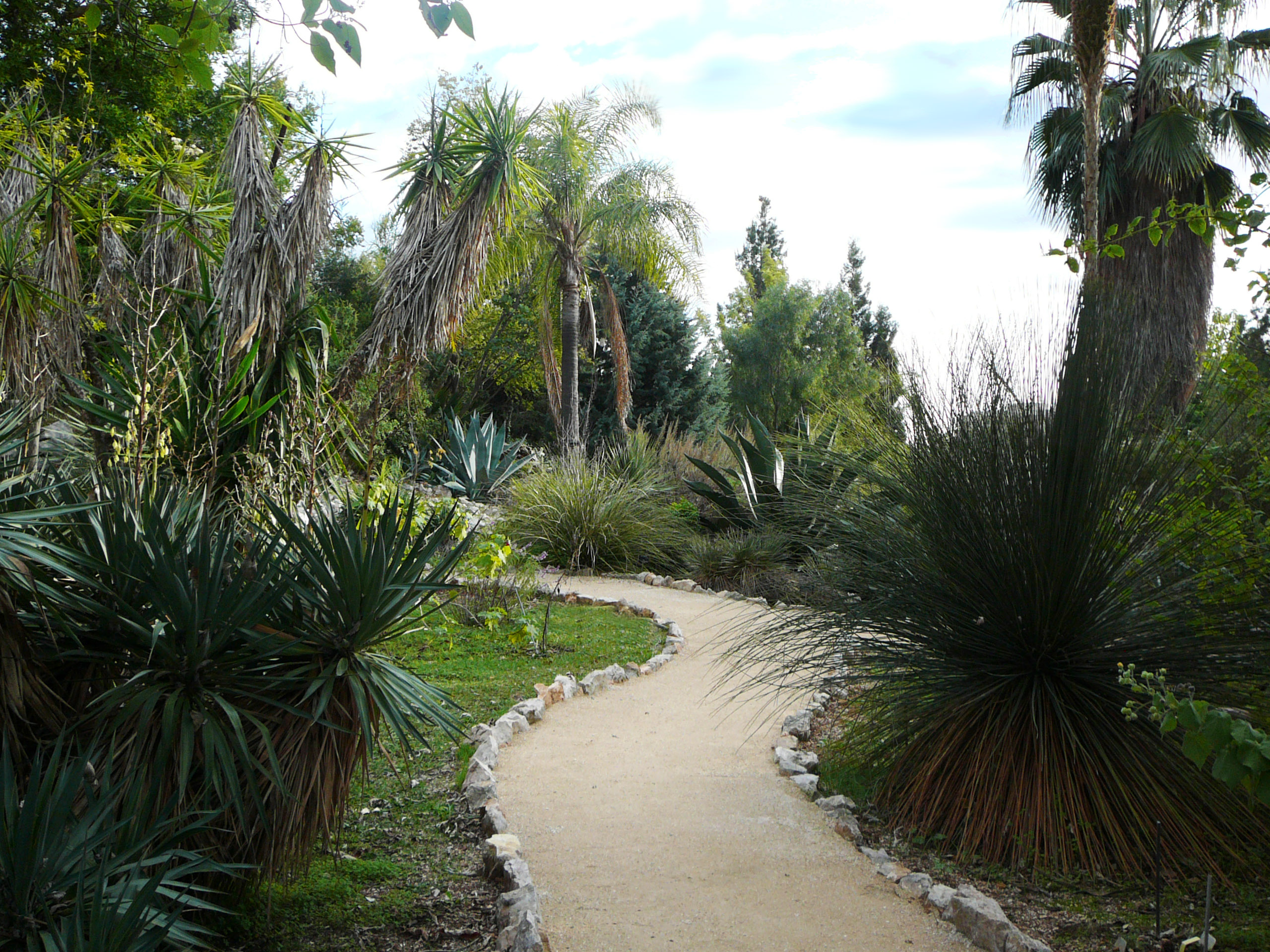 Palms collections in the Nice Botanical Garden